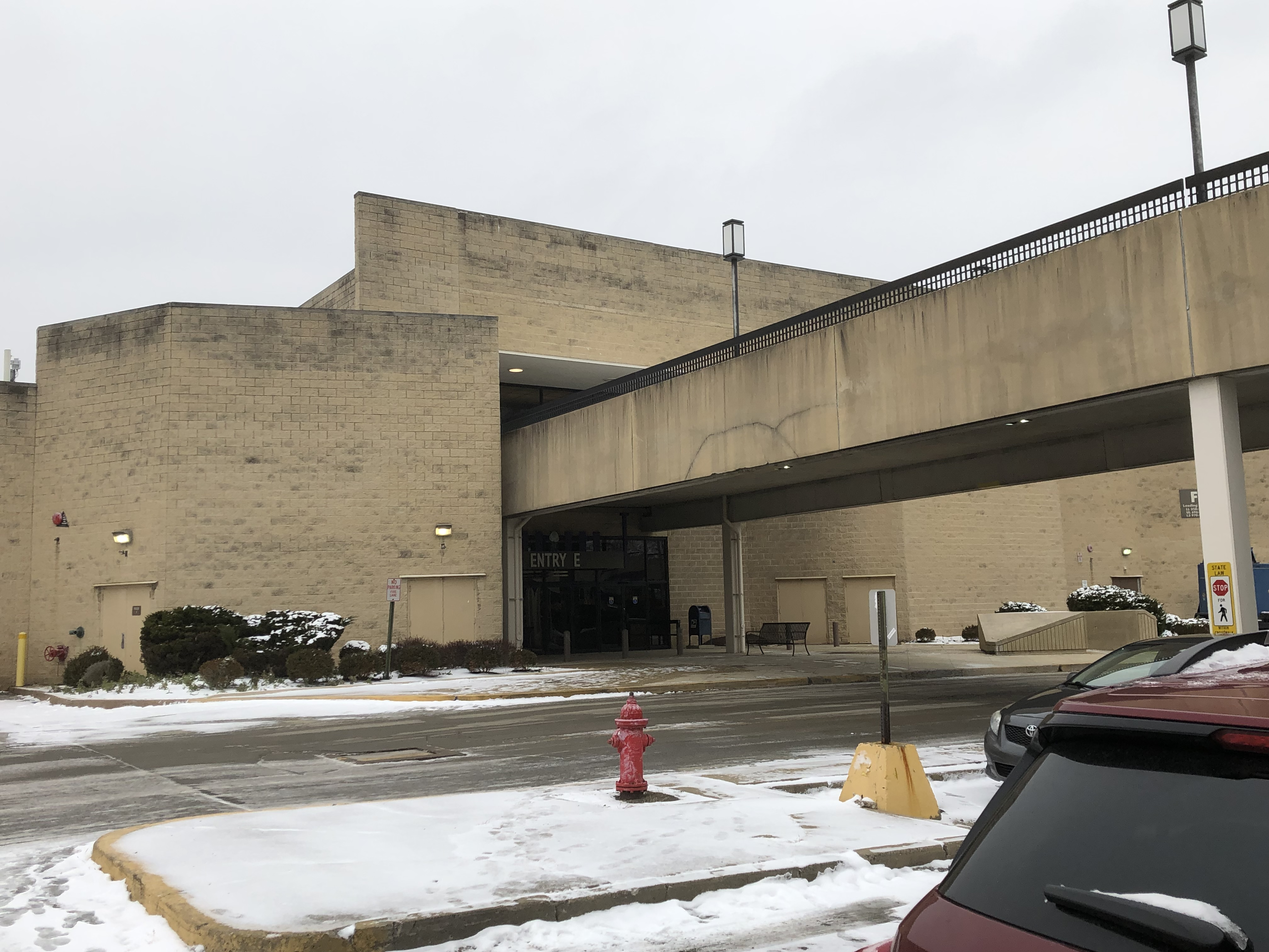 Century III Mall 2018